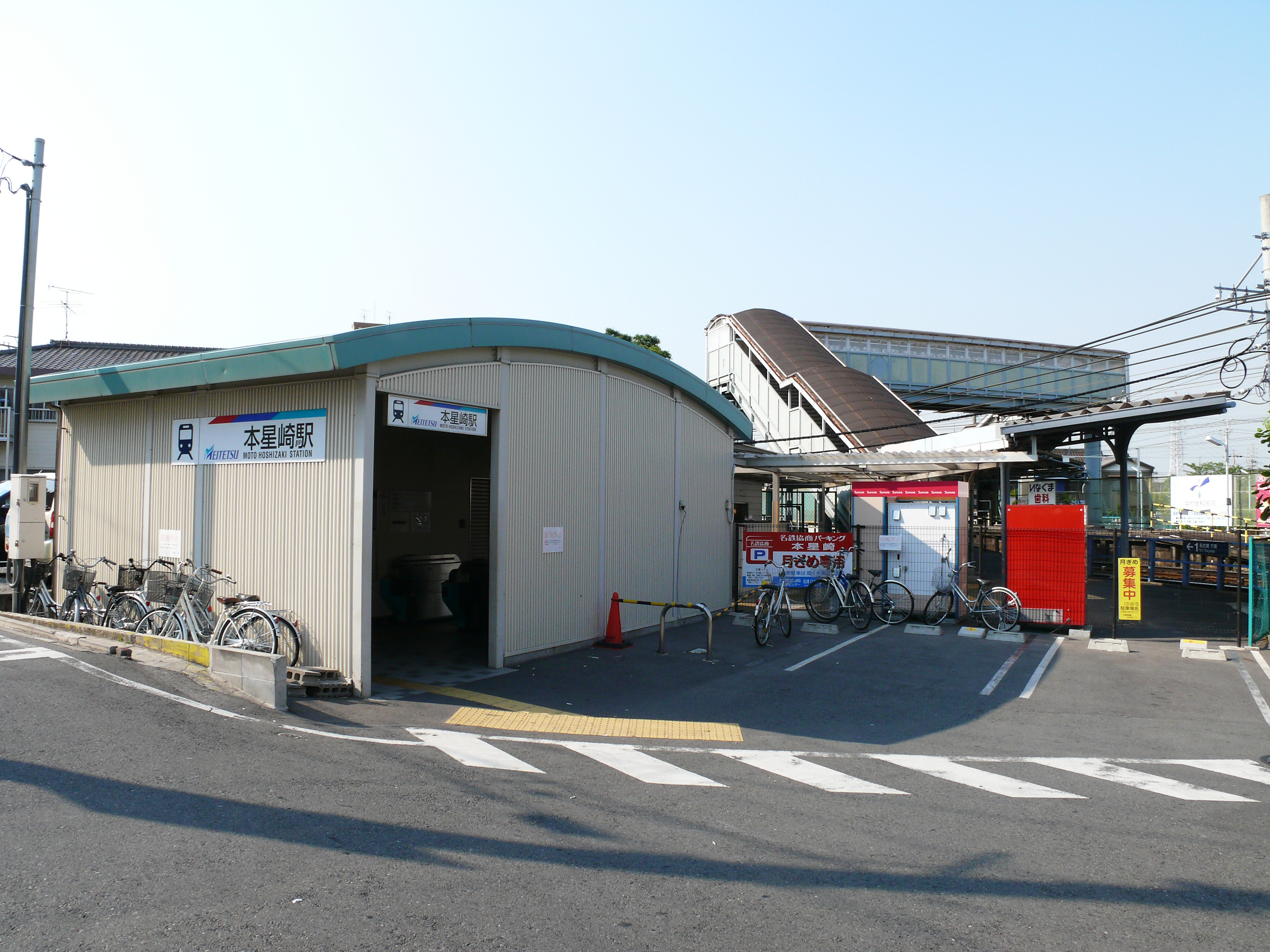 Meitetsu Moto Hoshizaki Station.